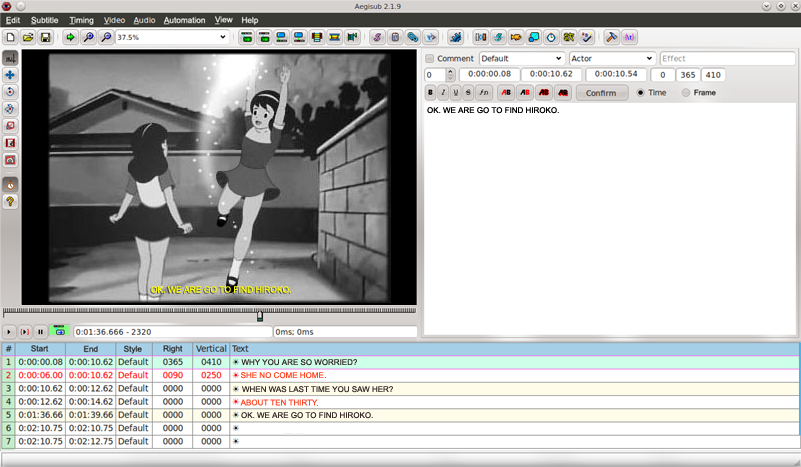 Faux screenshot of Aegisub editor. Image composed by Blackshade 9 with incidental artwork by Simon Kirby. Released into the public domain under CC-0. Example of a cartoon being fansubbed with the program Aegisub. This image depicts how a fansub is subtitled. The central graphic is not an actual anime. Artwork by Simon Kirby. Parts of the picture are from: the project Aegisub (the program in example), under BSD License, the project KDE (the desktop environment), according to their licensing policy, under CC-BY-SA 3.0 license and/or GPL or GFDL.